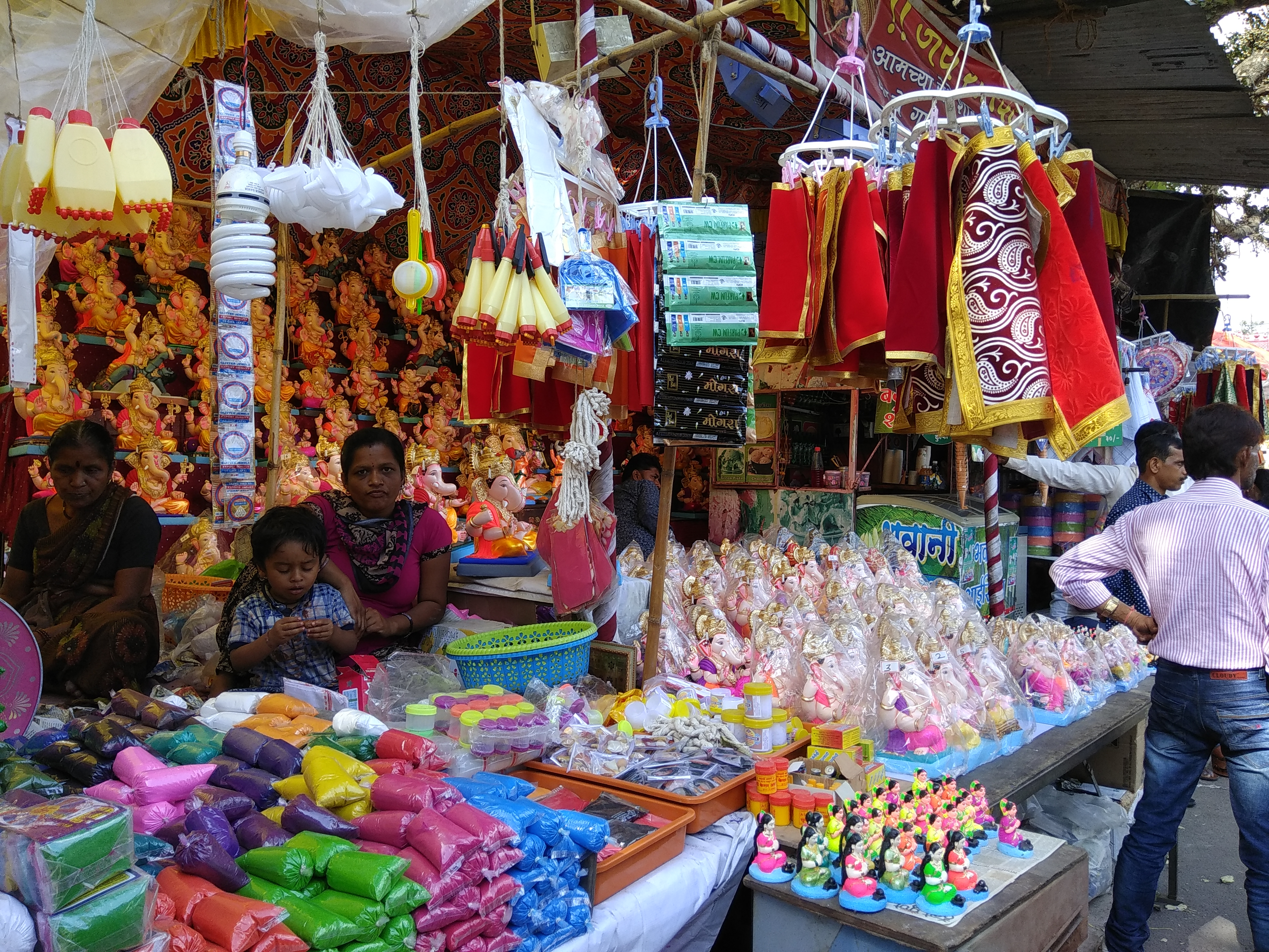 Shop of Ganpati Idols in Pune City